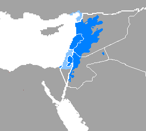 Levantin arabic